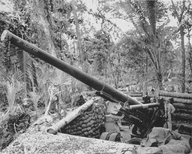 4TH DEFENSE BATTALION 155MM GUN, emplaced near Barakoma, is prepared to give General McClure's Northern Landing Force seacoast protection. The Marines' eight Long Toms never had a chance to fire at a live target, but were ready to do so if necessary.